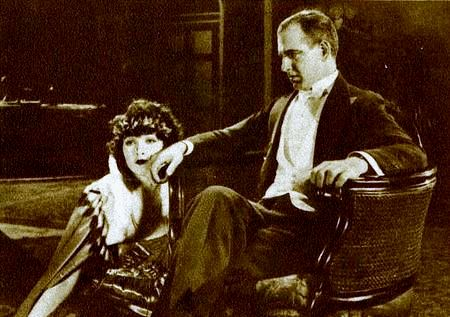 Still for the American film The Dangerous Little Demon (1922) with Marie Prevost and Jack Perrin, on page 9 of the March 30, 1930 Silverscreen magazine.